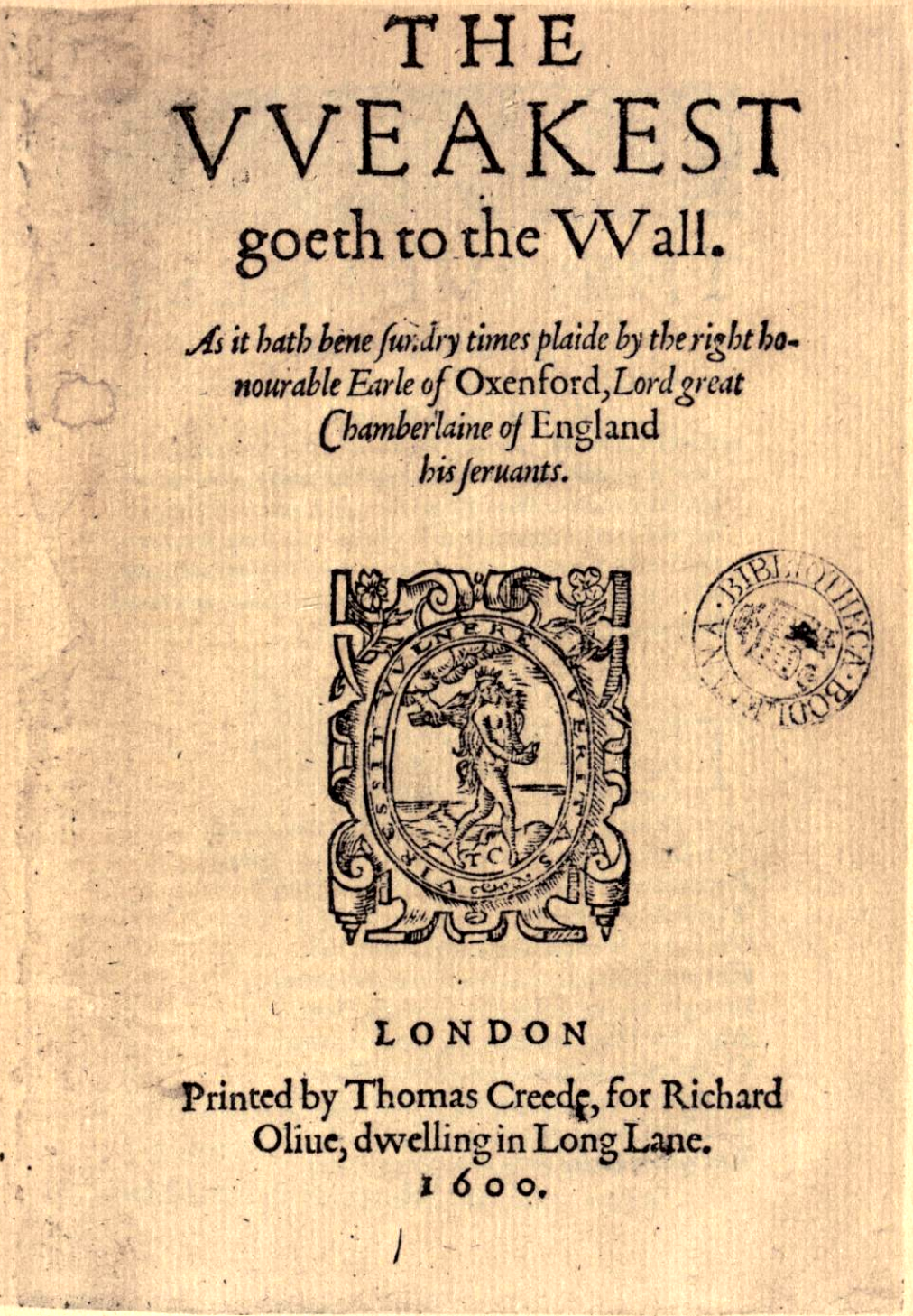 Title page of The Weakest Goeth to the Wall, published by Thomas Creede in London in 1600